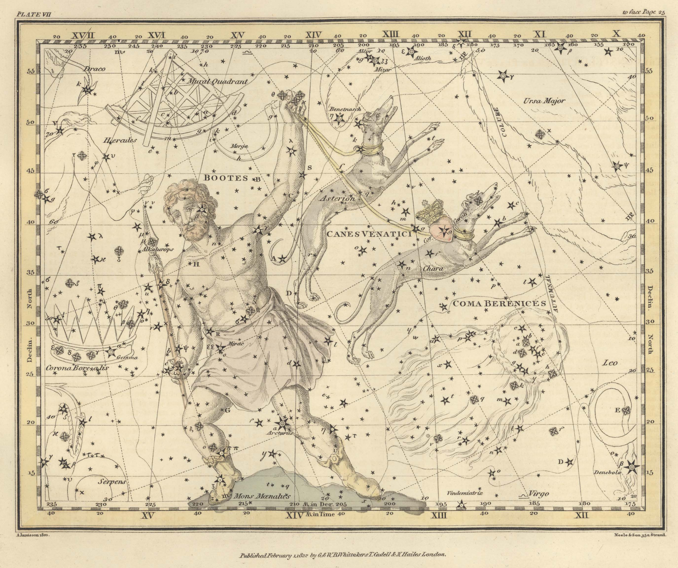 Plate 7 from A celestial atlas comprising a systematic display of the heavens in a series of thirty maps illustrated by scientific description of their contents and accompanied by catalogues of the stars and astronomical exercises